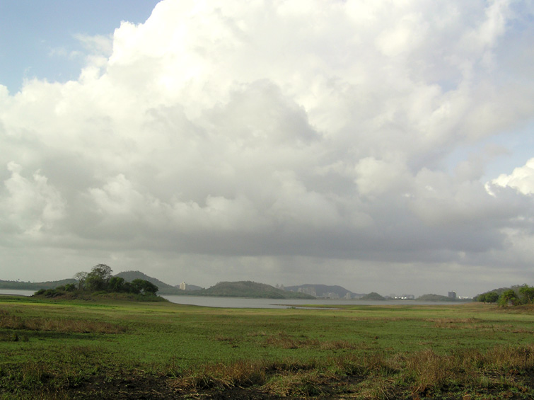 Vihar Lake is Mumbai's largest lake. It is situated in the Borivali National Park in northern Mumbai. Vihar lake is sandwiched between Tulsi Lake and Powai Lake are the other two lakes in the vicinity. The Powai-Kanheri hill ranges serve as the catchment area for rain water which feeds the lake. As one of Mumbai's water sources, it meets part of the city's water requirement, especially to the South Mumbai region.